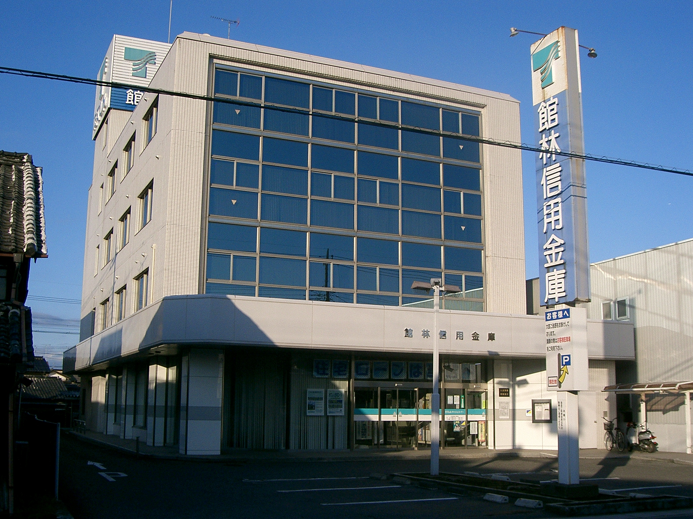 Head office of Tatebayashi Shinkin Bank